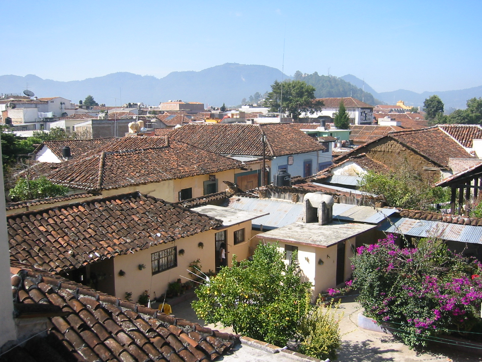 This is the view from a hostel in San Cristobal de las Casas.